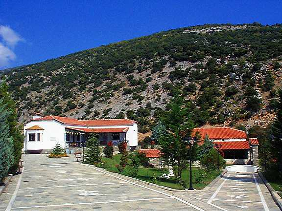 General view of the museum, image from the Museum of the Macedonian Struggle, Hromio, West Macedonia, Greece